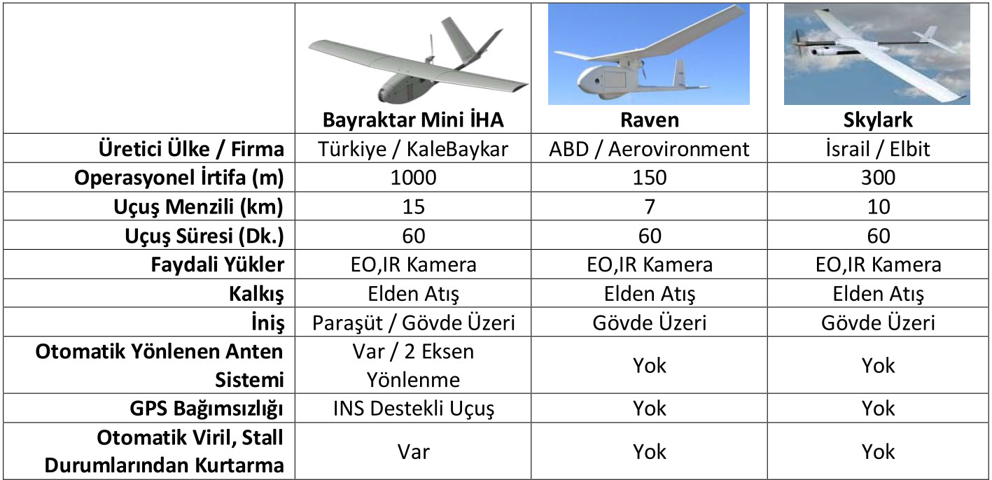 Mini iha karşılaştırma tablosu